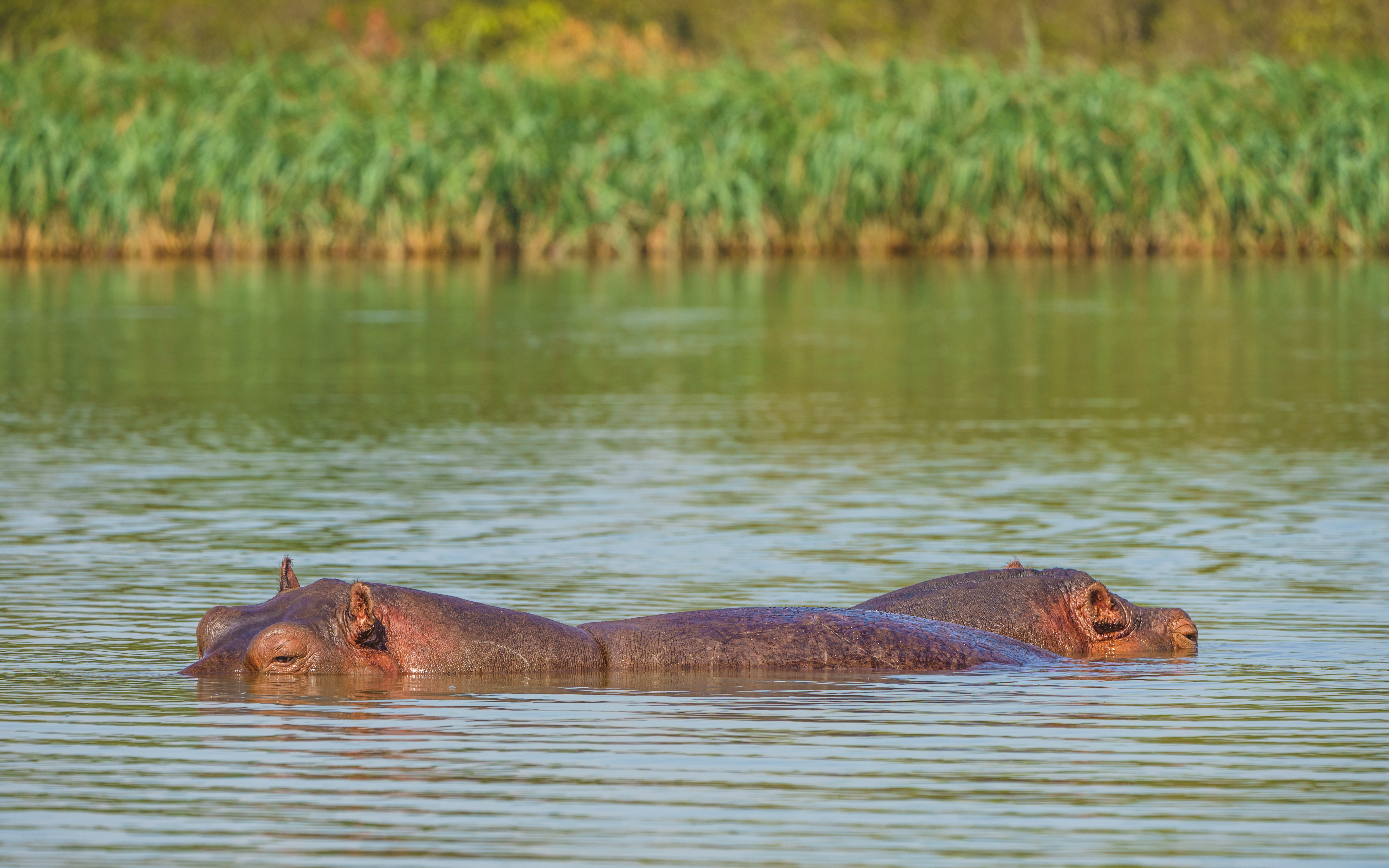 Hippos – Lake Tana near Bahir Dar, Ethiopia